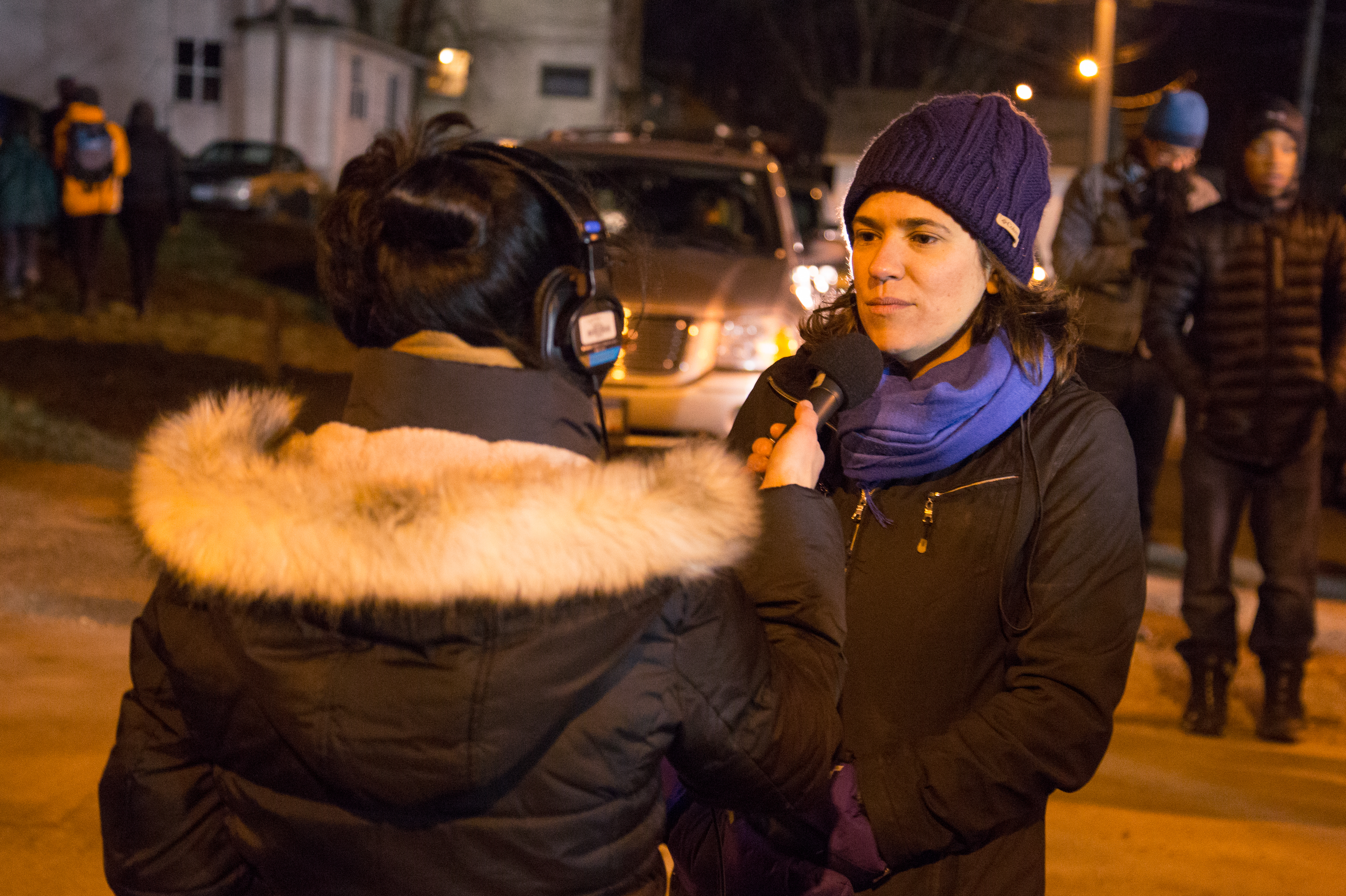 Minneapolis City Council Member Lisa Bender is interviewed by a reporter outside the Minneapolis Police Department's Fourth Precinct during the fifth night of demostrations following the shooting death of Jamar Clark. Photo: Tony Webster